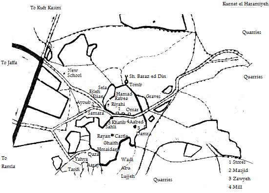 Map of Majdel Yaba, and road leading to Ras El Ain, and Auja River which showing the families prior to 1948